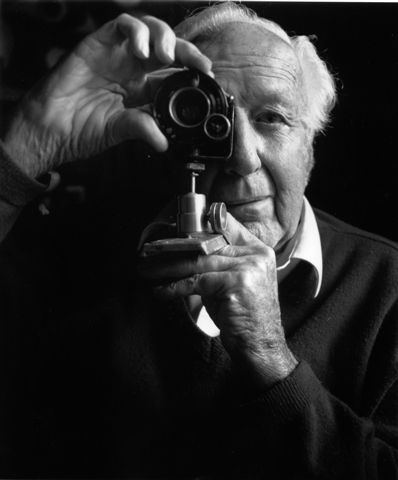 William Heick, Strawberry Manor, 2007, Photograph by Christopher Flach